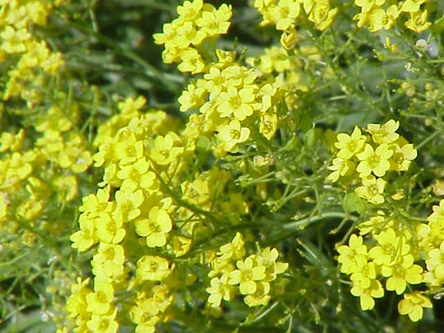 Species: Alyssum saxatile Family: Brassicaceae Image No. 2